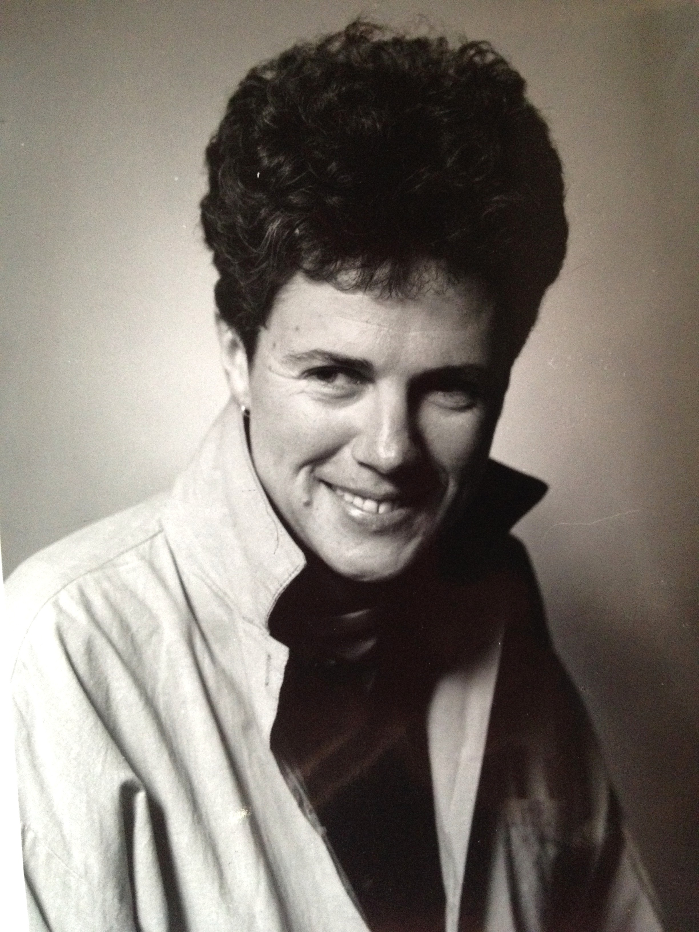 Claire Ritter, pianist/composer in 1990 @ New England Conservatory of Music in Boston, MA. Photo by E.O.Kean